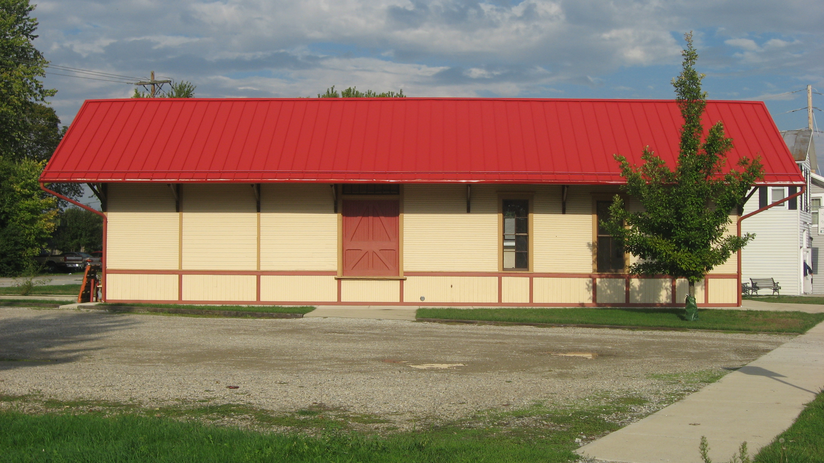 Western side of the West Alexandria Depot, located at 71 E. Dayton Street (U.S. Route 35) in West Alexandria, Ohio, United States. Built in 1906, it is listed on the National Register of Historic Places.